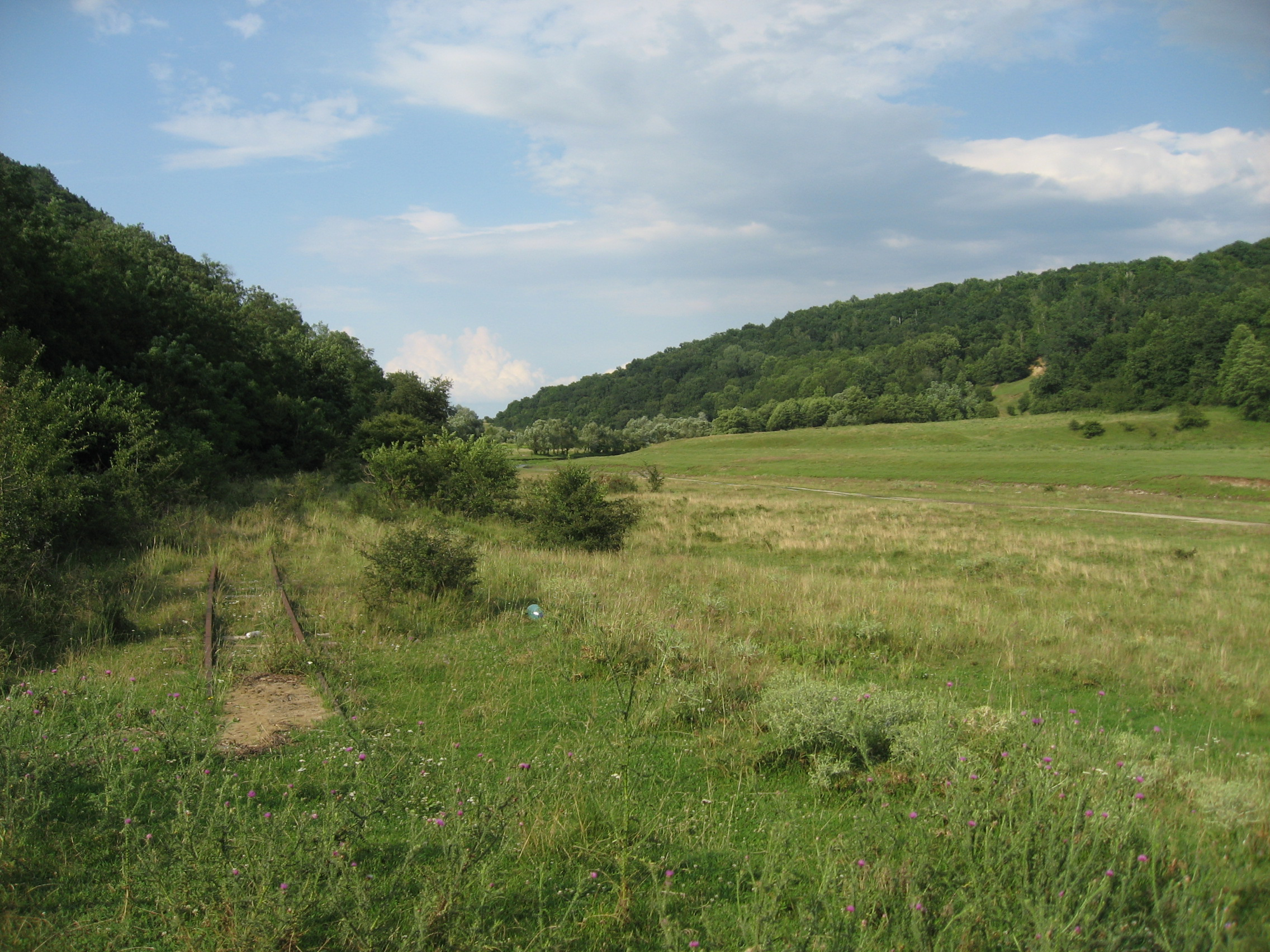 the tracks of the former railroad from Sibiu to Agnita, in the Valea Hârtibaciului, between Mohu and Cașolț, Sibiu county, Romania